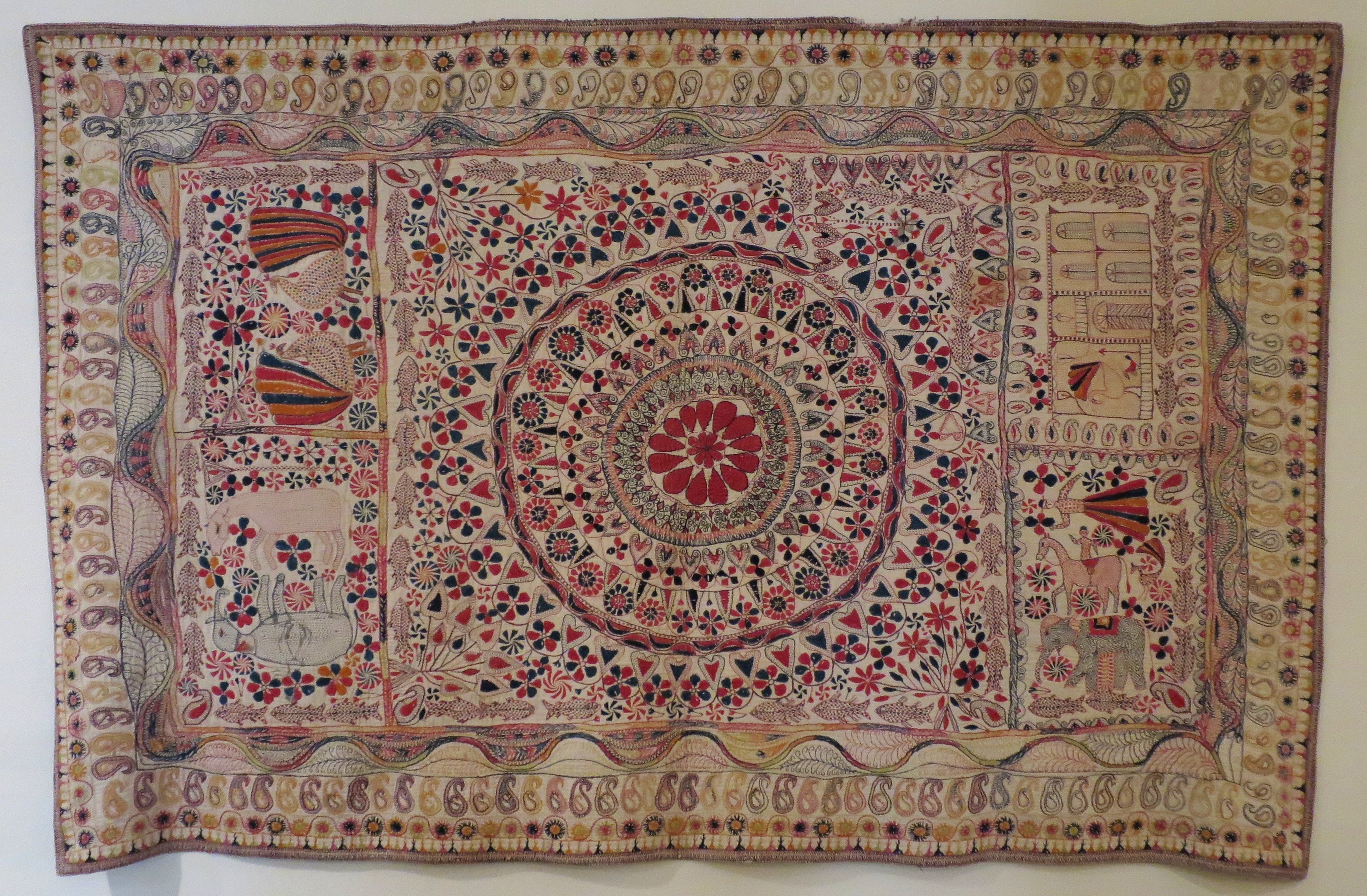 Kantha (bed cover) from Bengal, India, late 19th - early 20th century, cotton, plain weave, quilted and embroidered, Honolulu Museum of Art, accession 3983.1